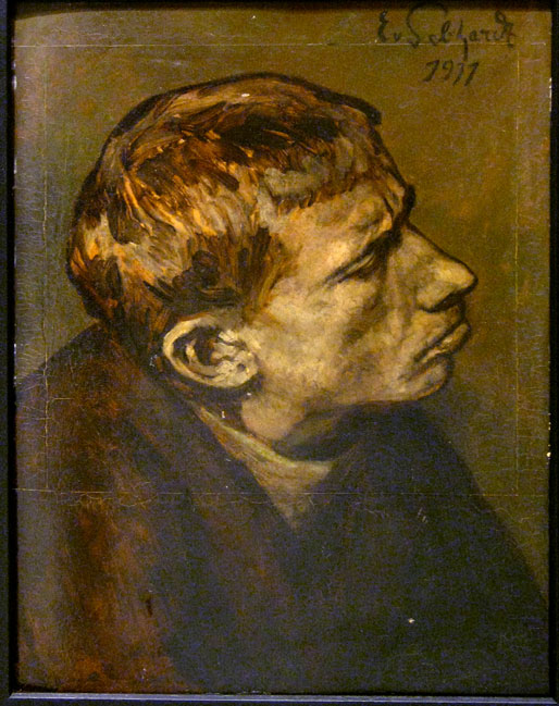 Eduard von Gebhardt "Portrait Of A Man". Oil on wooden board. 62x45 cm